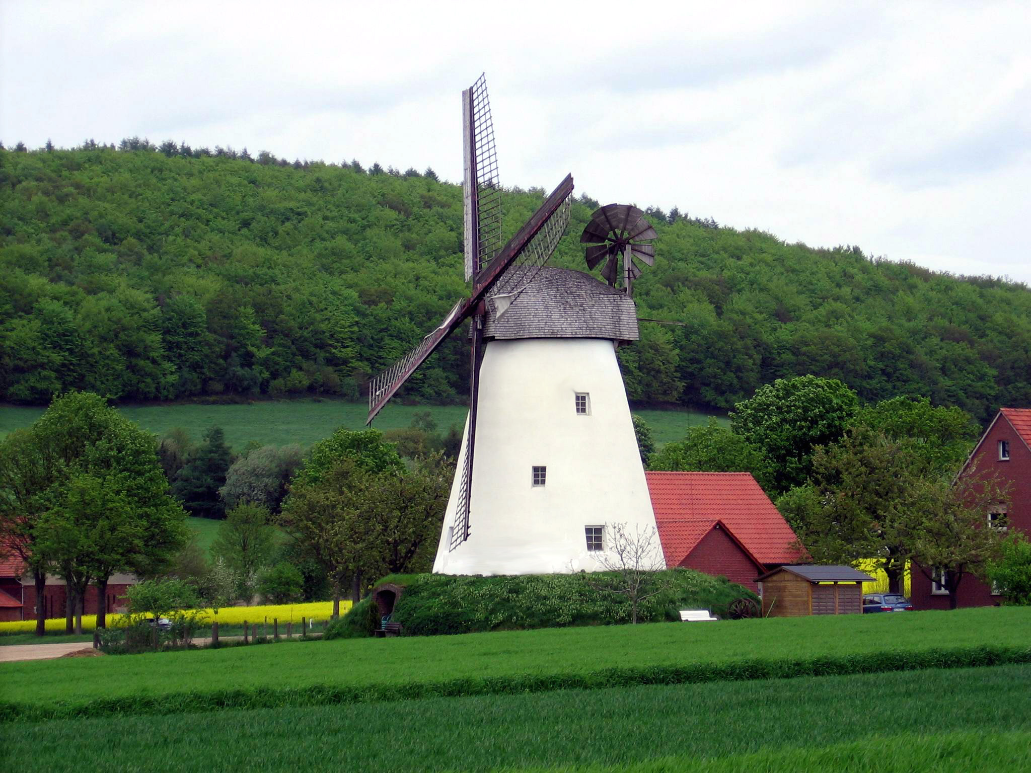 Windmill in Hüllhorst, Minden-Lübbecke, North Rhine-Westphalia, Germany.